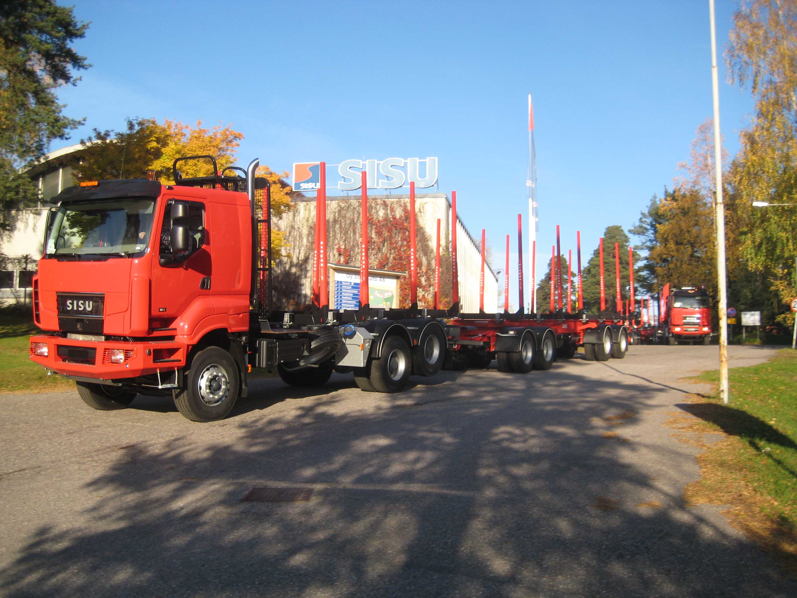 Sisu C500 Timber 6×4 truck combinations ordered by a Russian customer leaving the Sisu factory in Karis, Finland. The engine is a 13-litre, 500-hp Caterpillar.